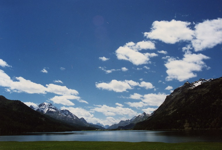 Looking south down Lake Sils in direction of Maloja